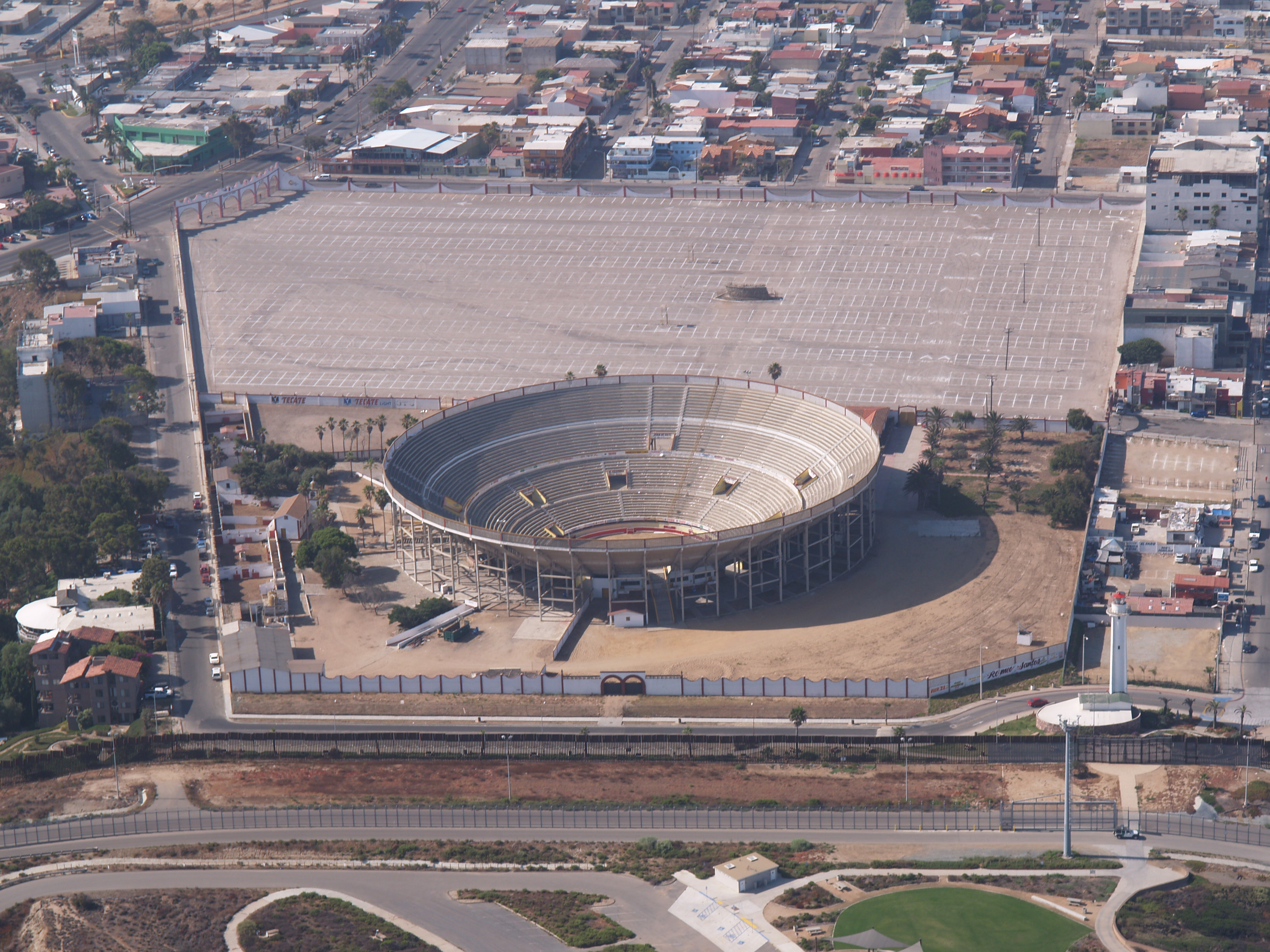 Aerial view of the Plaza de Toros Monumental de Tijuana or the Bullring by the Sea in Tijuana, Baja California, Mexico. The parking lot for the Border Field State Park can be seen at the bottom of the picture. - Attribution to: Phil Konstantin